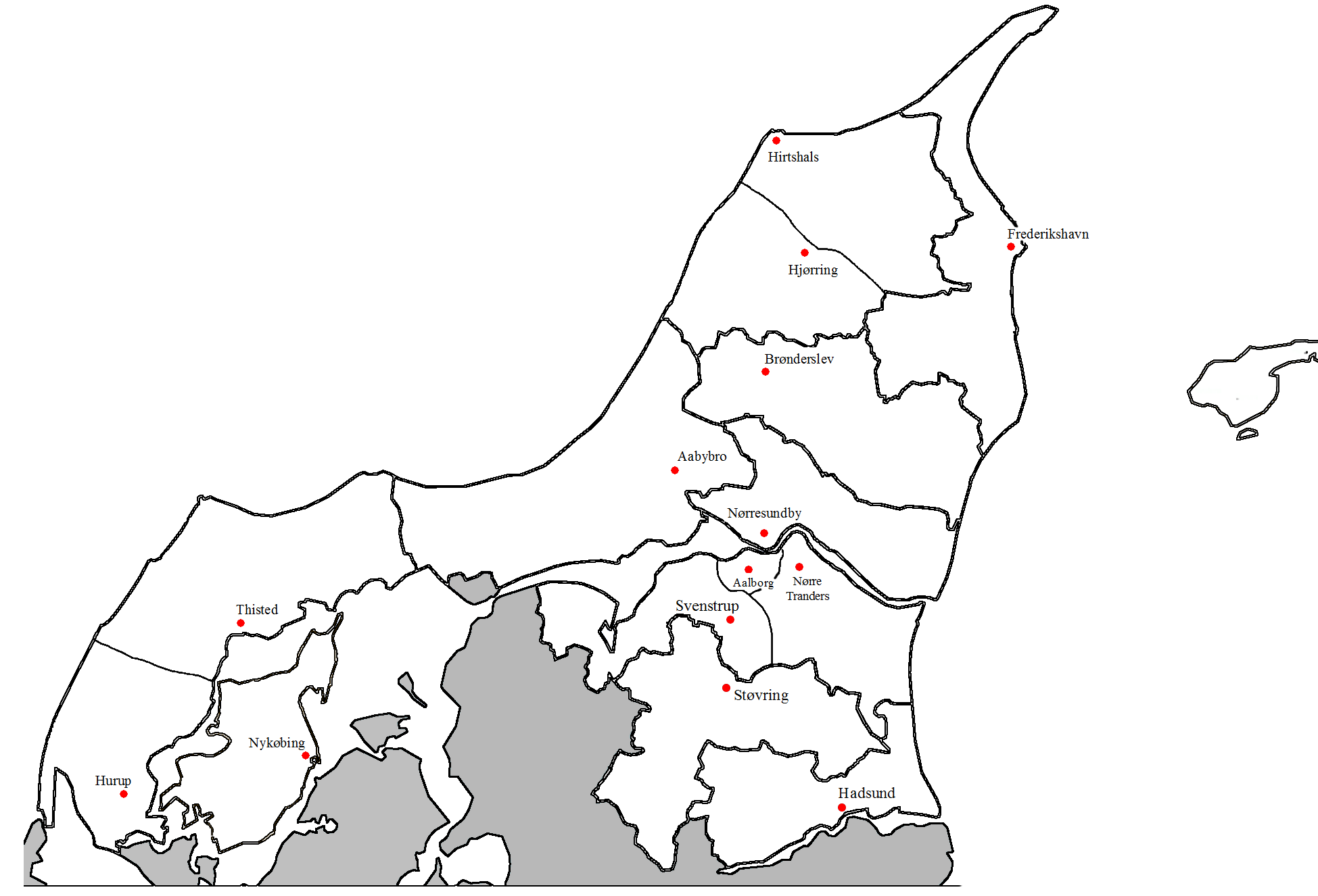 Maps Diocese of Aalborg.